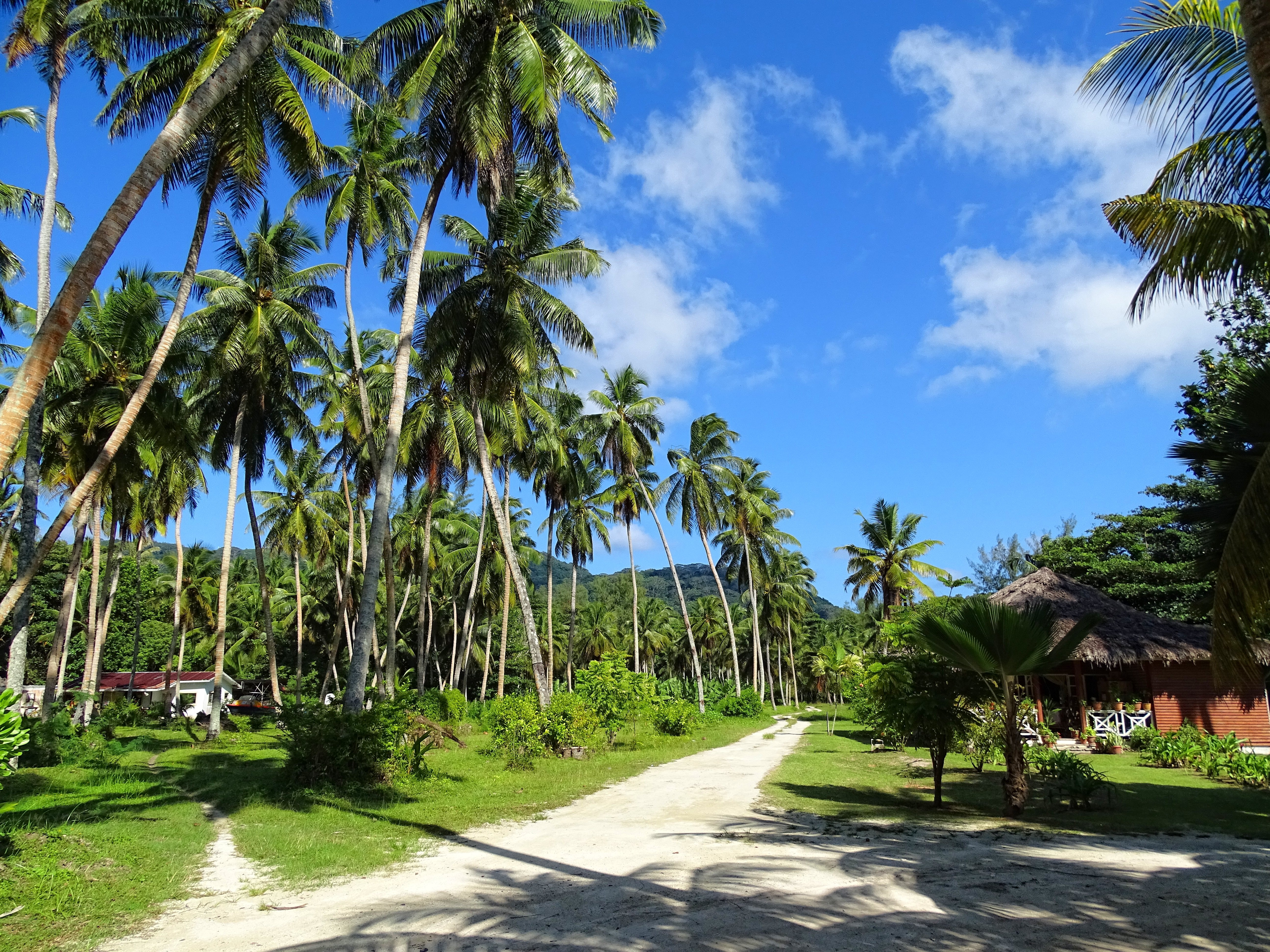 The coconut farm surround Anse Source d'Argent on La Digue, Seychelles.